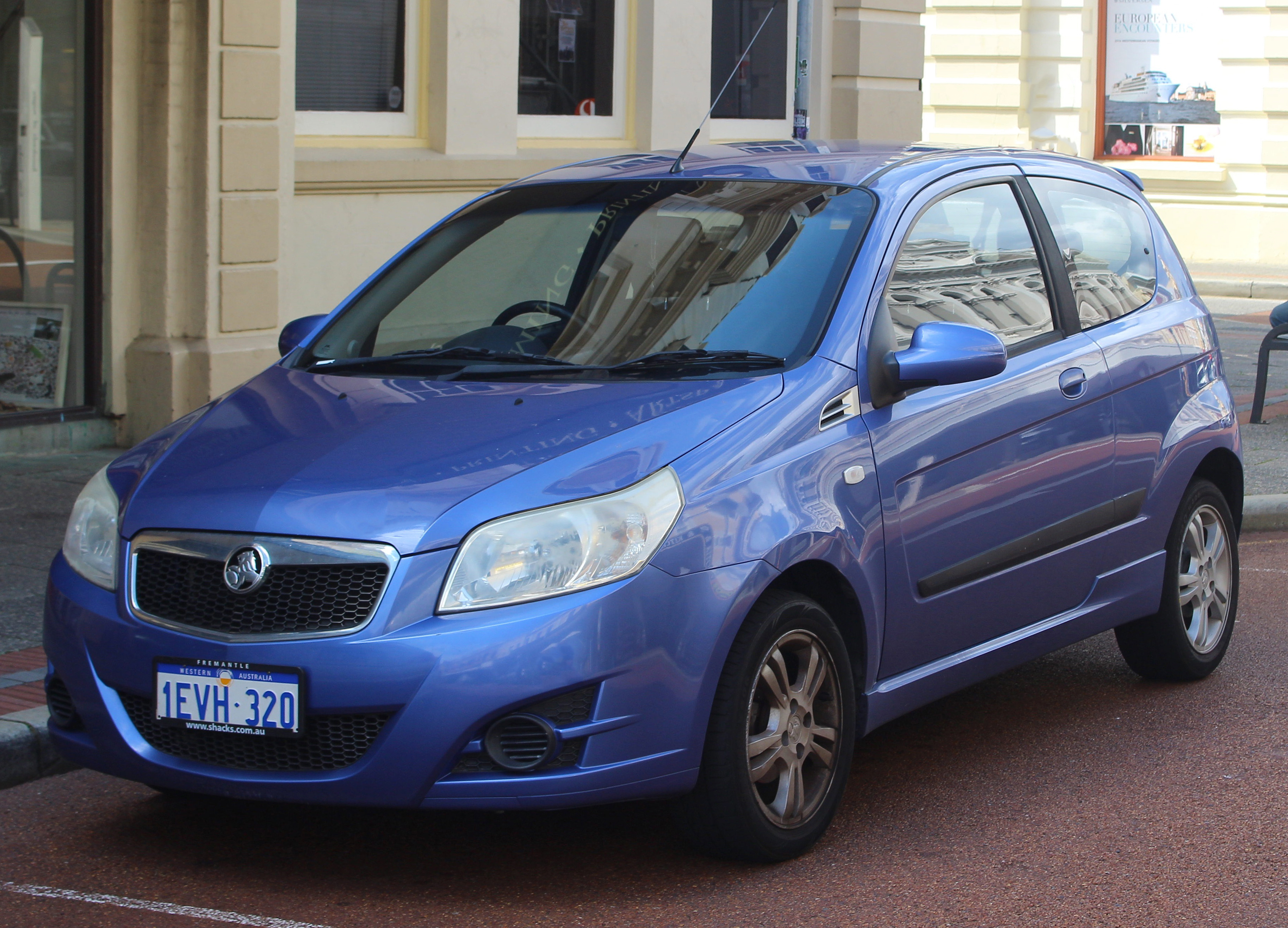 2008-2010 Holden Barina (TK) 3-door hatchback. Photographed in Fremantle, Western Australia, Australia.